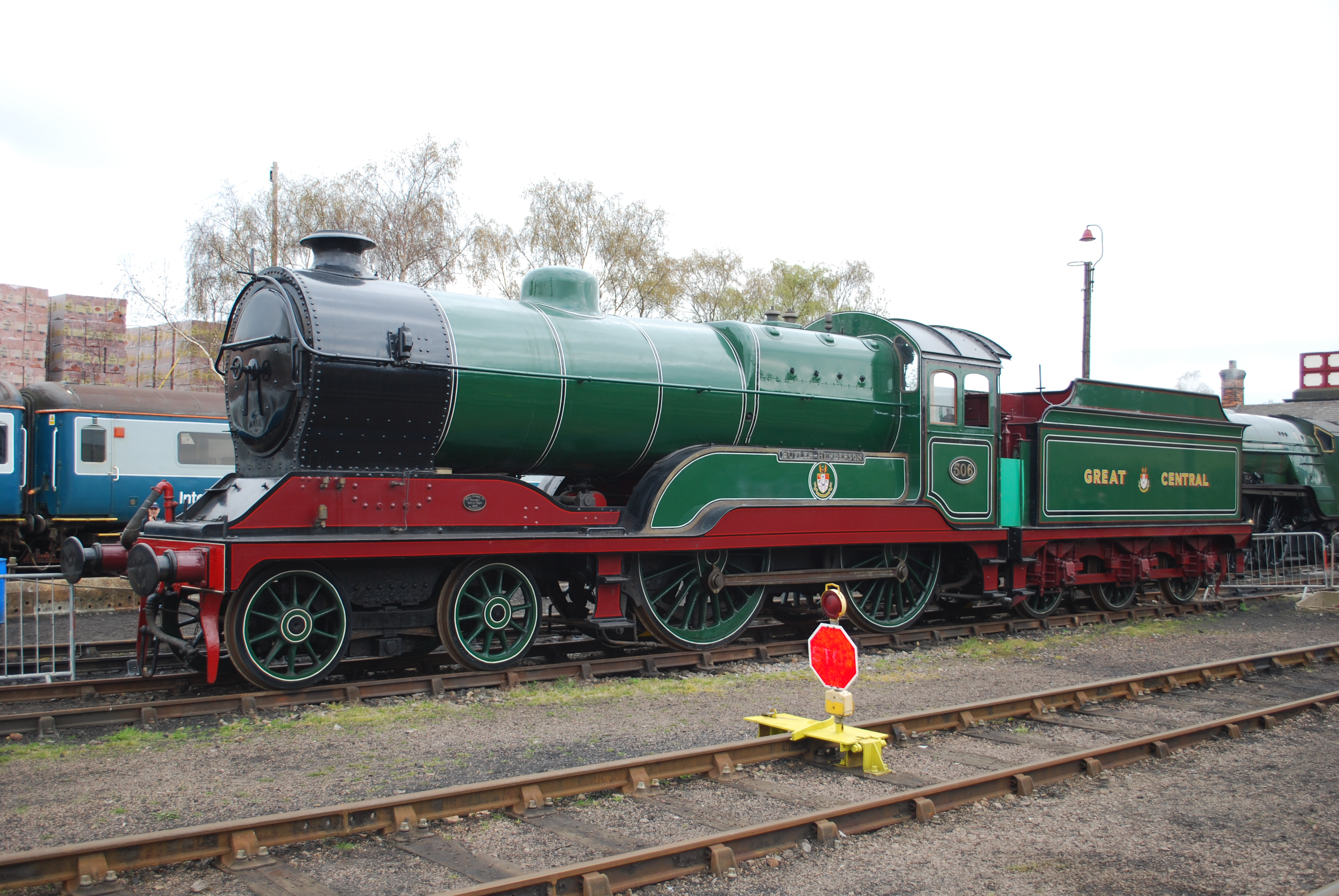 GCR Robinson Class "11F" (LNER Class "D11/1") or "Large Director" 4-4-0 No.506 (LNER No.5506; later No.2660; BR No.62660) "Butler Henderson" in GC lined Brunswick Green livery. On shed at Barrow Hill, 04/12. Probably the finest GCR express loco which out-performed the much larger Robinson 4-6-0's. After Grouping and the absorbtion of the GCR by the LNER, Gresley was so impressed with them he built more for the Scottish part of the LNER.